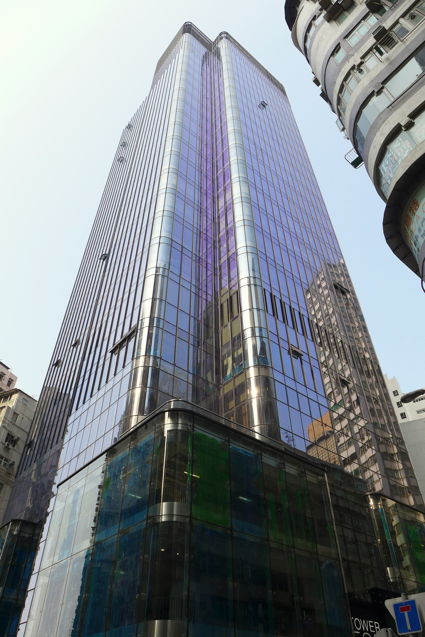 TOWER 535, Causeway Bay